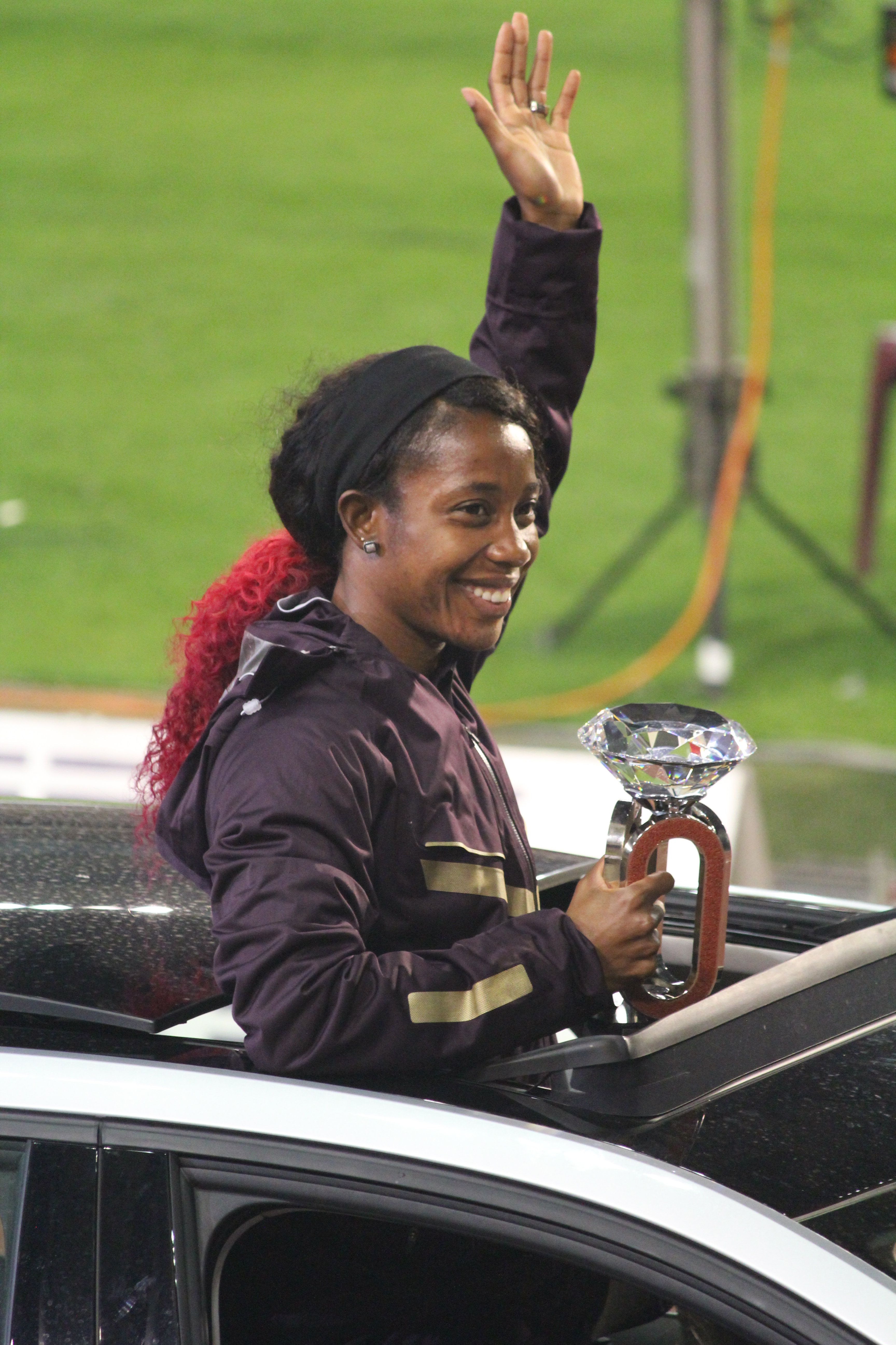 Memorial Van Damme, Shelly-Ann Fraser-Pryce (JAM), 100m, Olympic champion 2008, 2012, world champion 2009, 2013, 2015 Shelly-Ann Fraser-Pryce (born 27 December 1986; née Fraser) is a Jamaican track and field sprinter. Born in Kingston, Jamaica, Fraser-Pryce ascended to prominence in the 2008 Olympic Games when at 21 years old, the relatively unknown athlete became the first Caribbean woman to win 100 m gold at the Olympics. In 2012, she successfully defended her 100m title, becoming the third woman to win two consecutive 100m events at the Olympics. Fraser-Pryce won the 100m gold medal in the 2009 IAAF World Championships, becoming the second female sprinter to hold both World and Olympic 100 m titles simultaneously (after Gail Devers). In 2013 she became the first female sprinter to win gold medals in the 100 m, 200 m and 4x100 m in a single world championship. Fraser-Pryce is also the second woman ever to own the world titles at 60m, 100m and 200m simultaneously. Nicknamed the "pocket rocket" for her petite frame (she stands 5 feet tall) and explosive starts, she is ranked fourth on the list of the fastest 100 m female sprinters of all time, with a personal best of 10.70 seconds, set in Kingston, Jamaica in 2012. (source